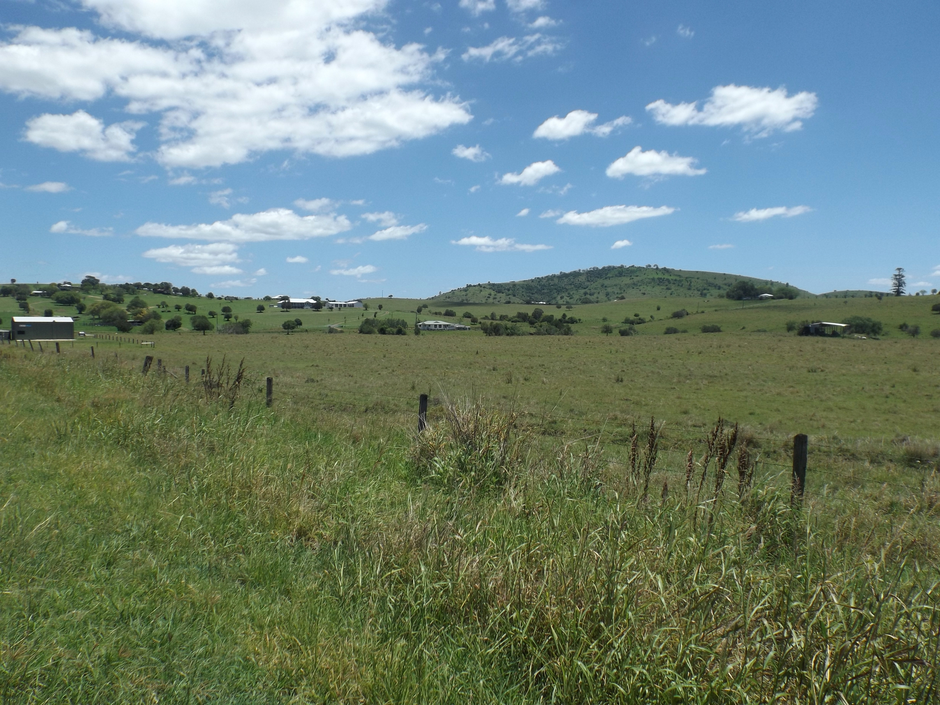 Photo of fields at Milford, Scenic Rim Region, Queensland, Australia.